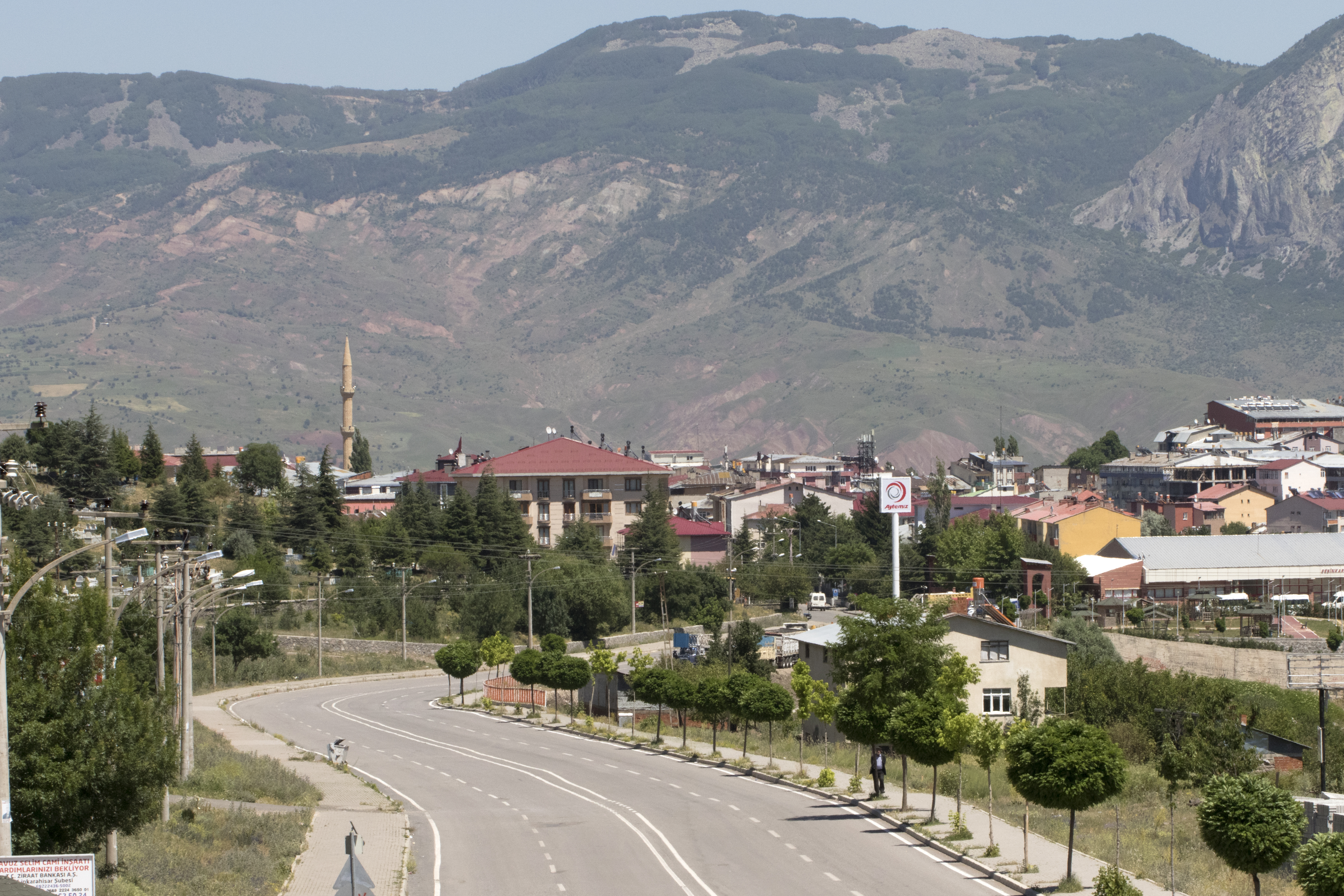 View of State Road D865 in the west of Şebinkarahisar, Giresun - Turkey.